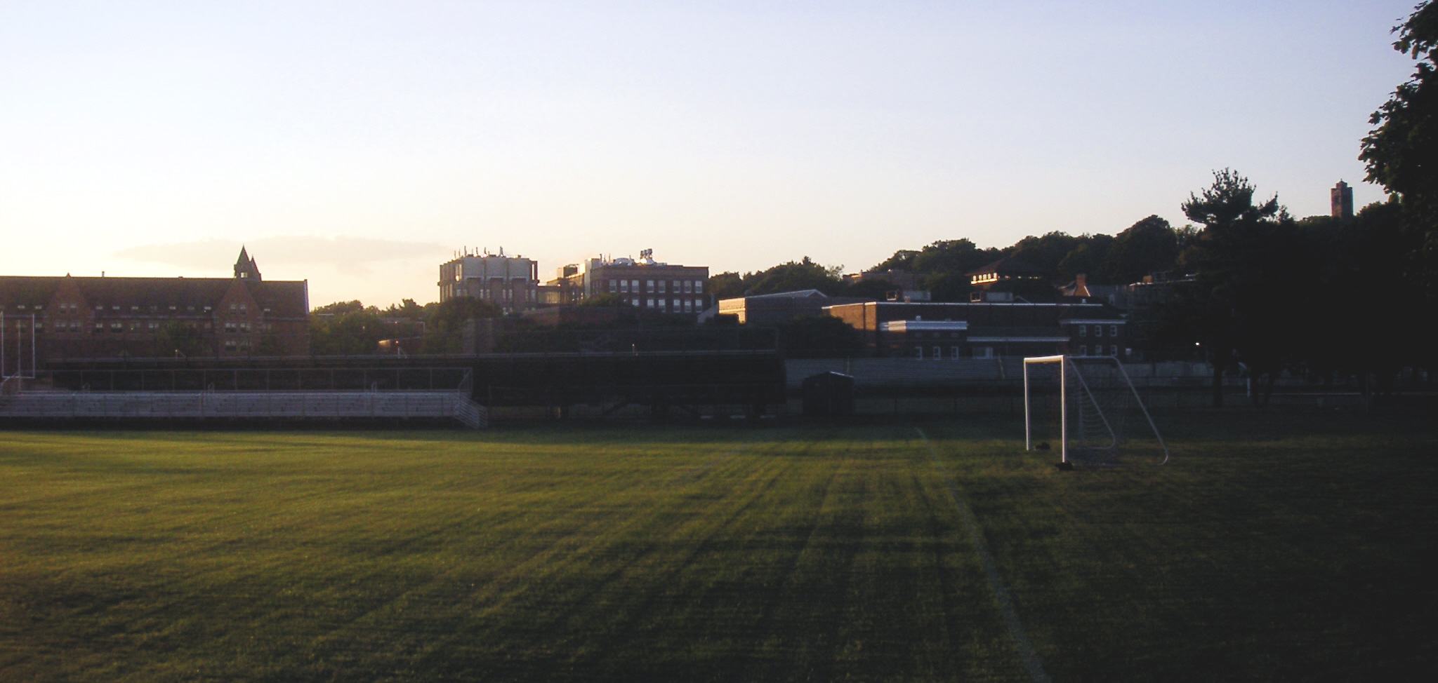 tufts campus sloping up the hill, practice fields in the foreground